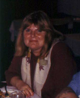 Jude Burkhauser, Giunio 1996